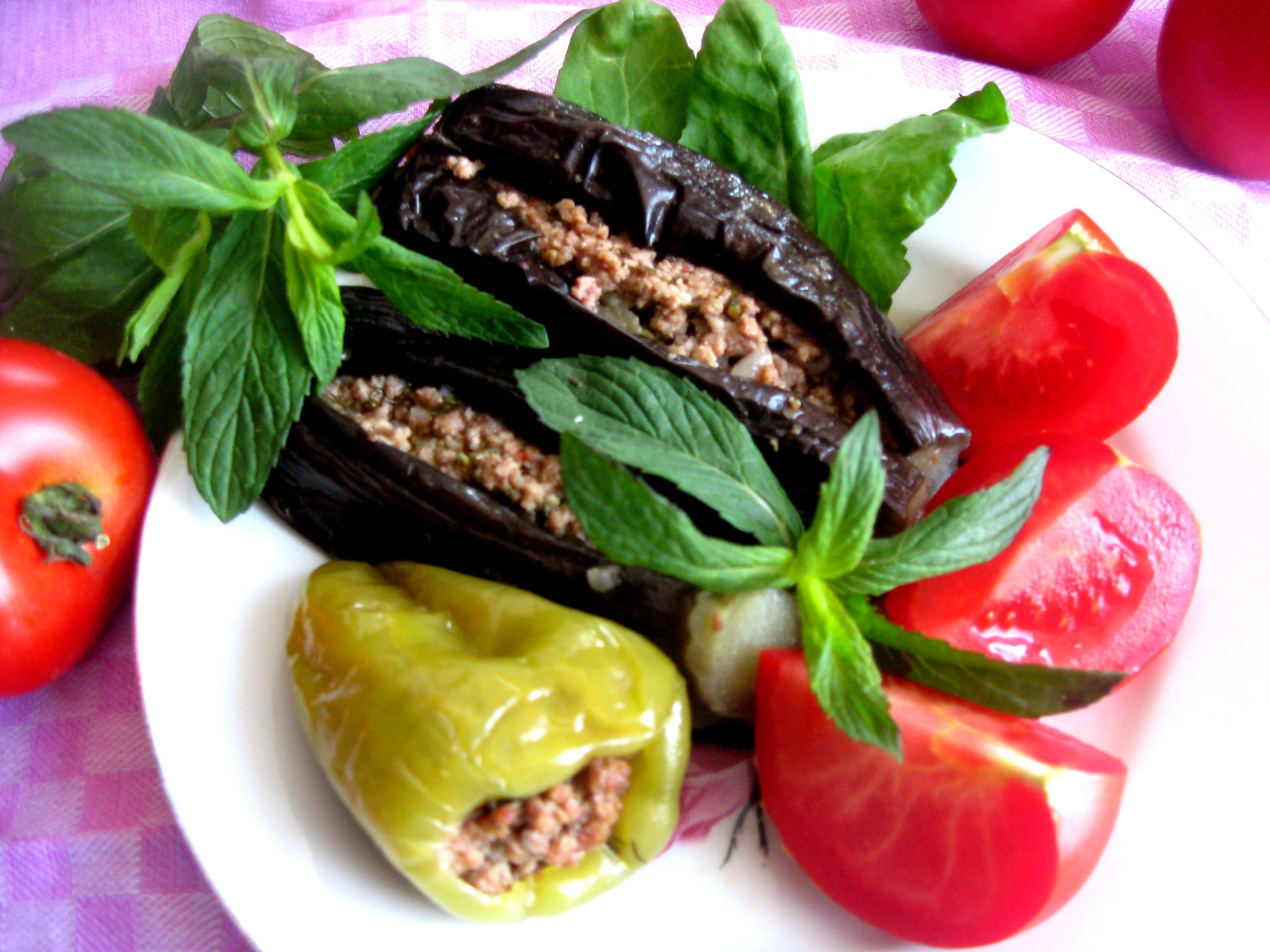 Aubergine dolma (stuffed eggplant), prepared in Azerbaijan.